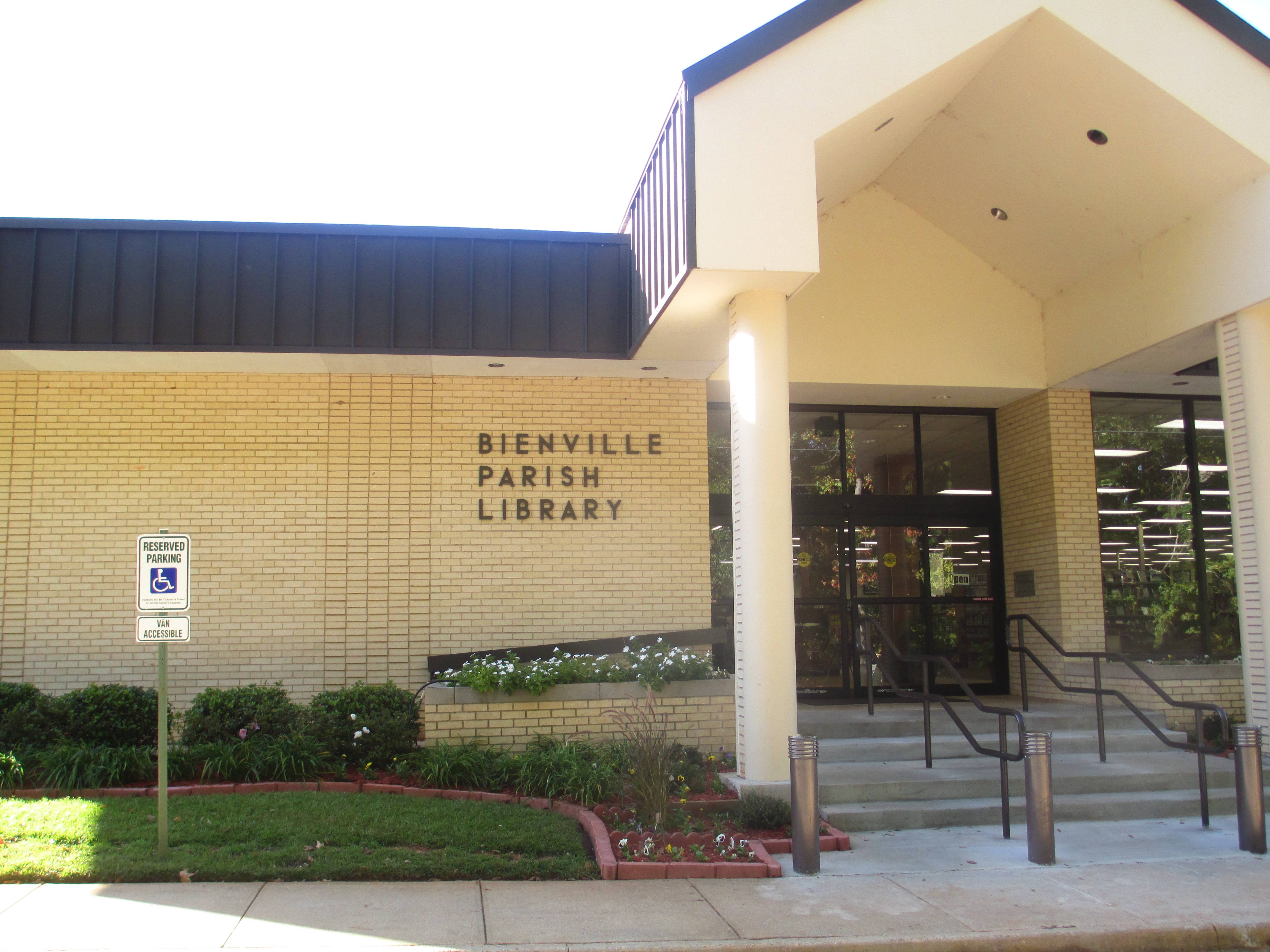 I took photo with Canon camera of Bienville Parish Library in Arcadia, LA.